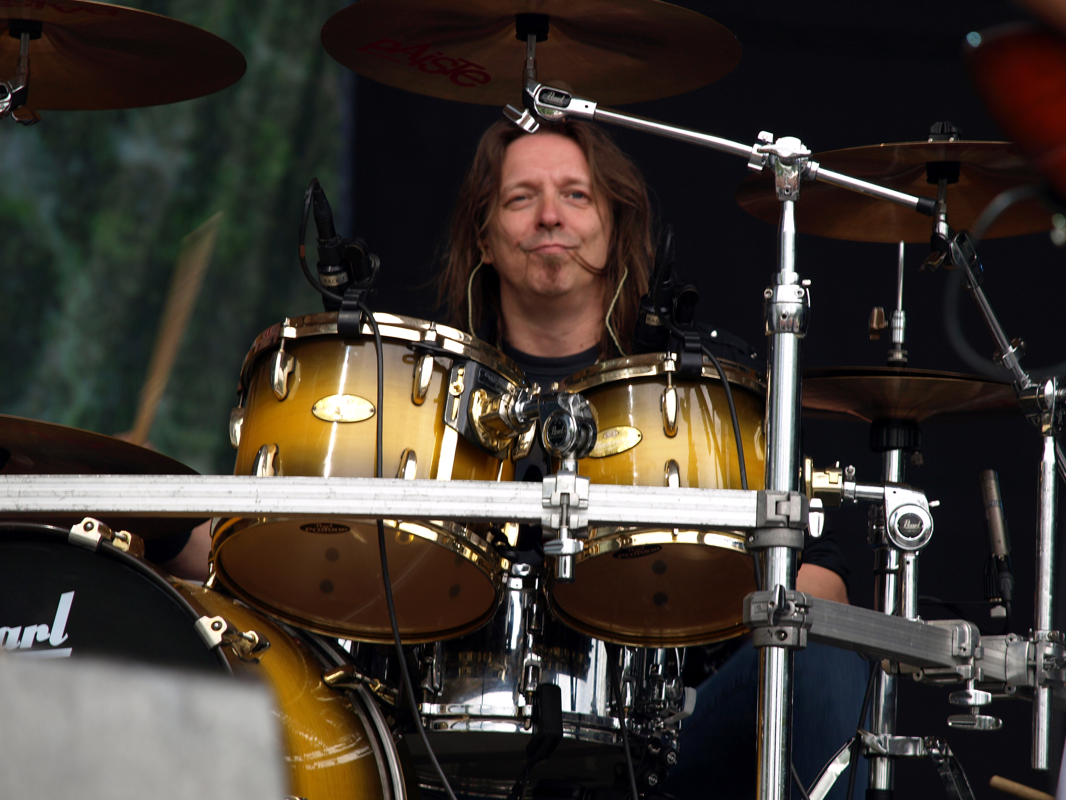 Finnish band Popeda at Provinssirock 2013